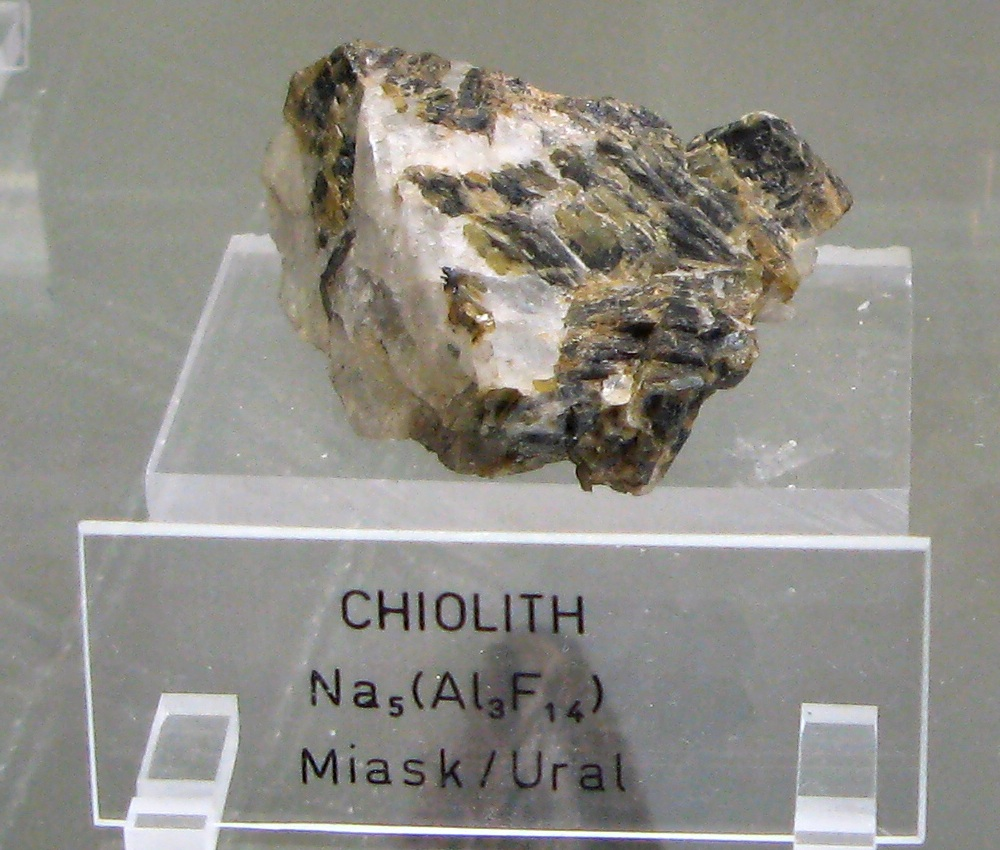 Chiolite - Locality: Miask, Ural - Exposed in the Mineralogical Museum, Bonn, Germany